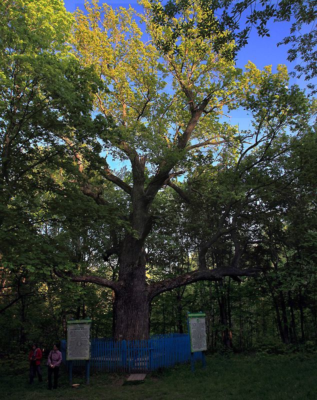 Oak " Elder of Chuvash Oaks". Near the village Ilinka, Morgaushsky District, Chuvash Republic, Russia. Age of oak in 2013 - 362 years